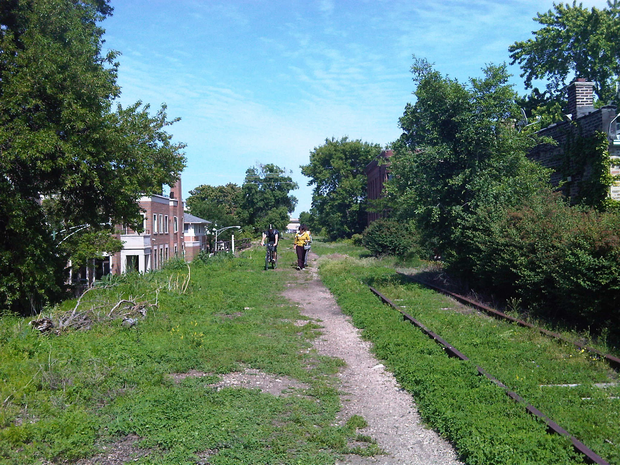 the Bloomingdale in Bucktown in 2009